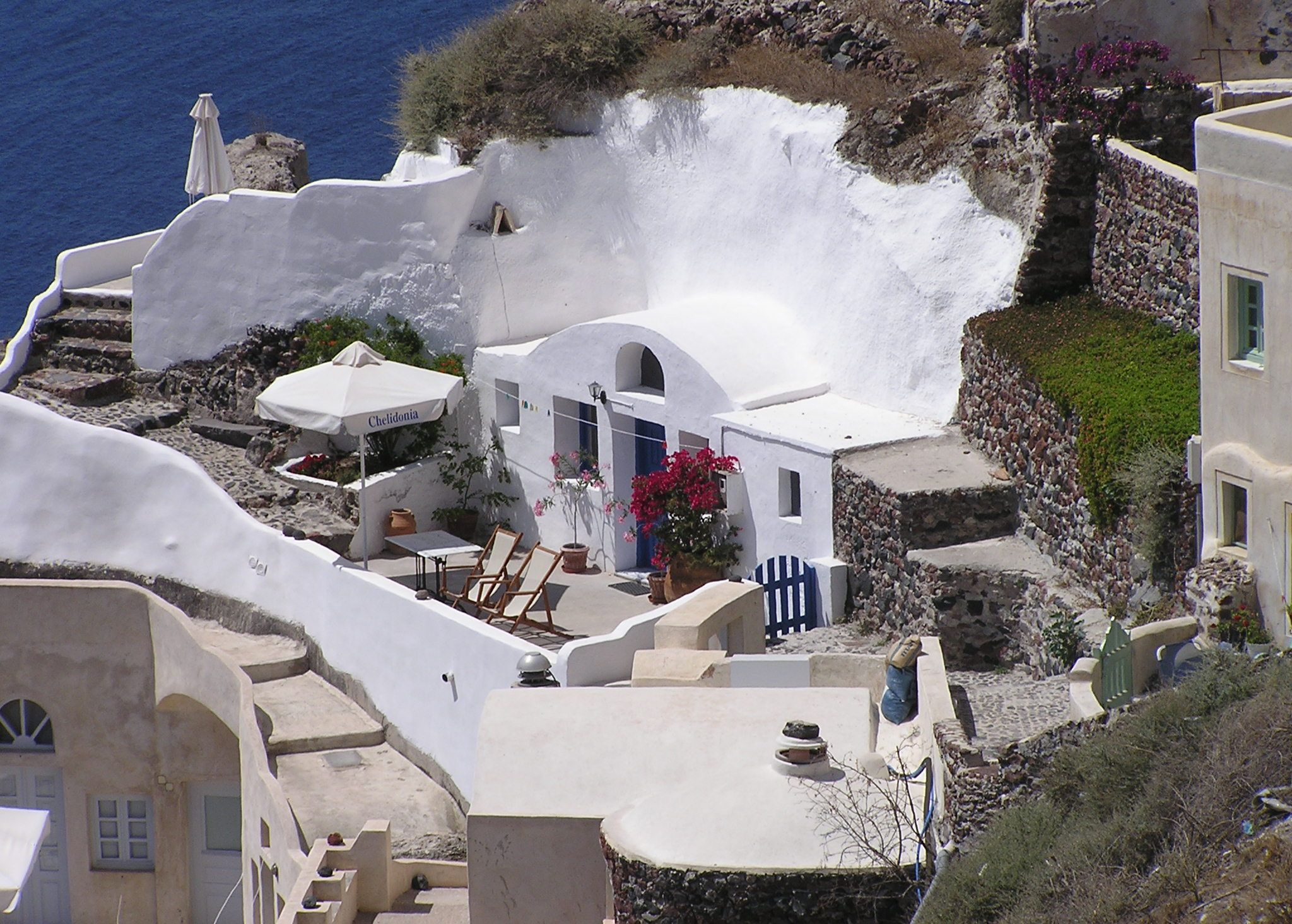 One of the cliff homes in Oia, Santorini, Greece